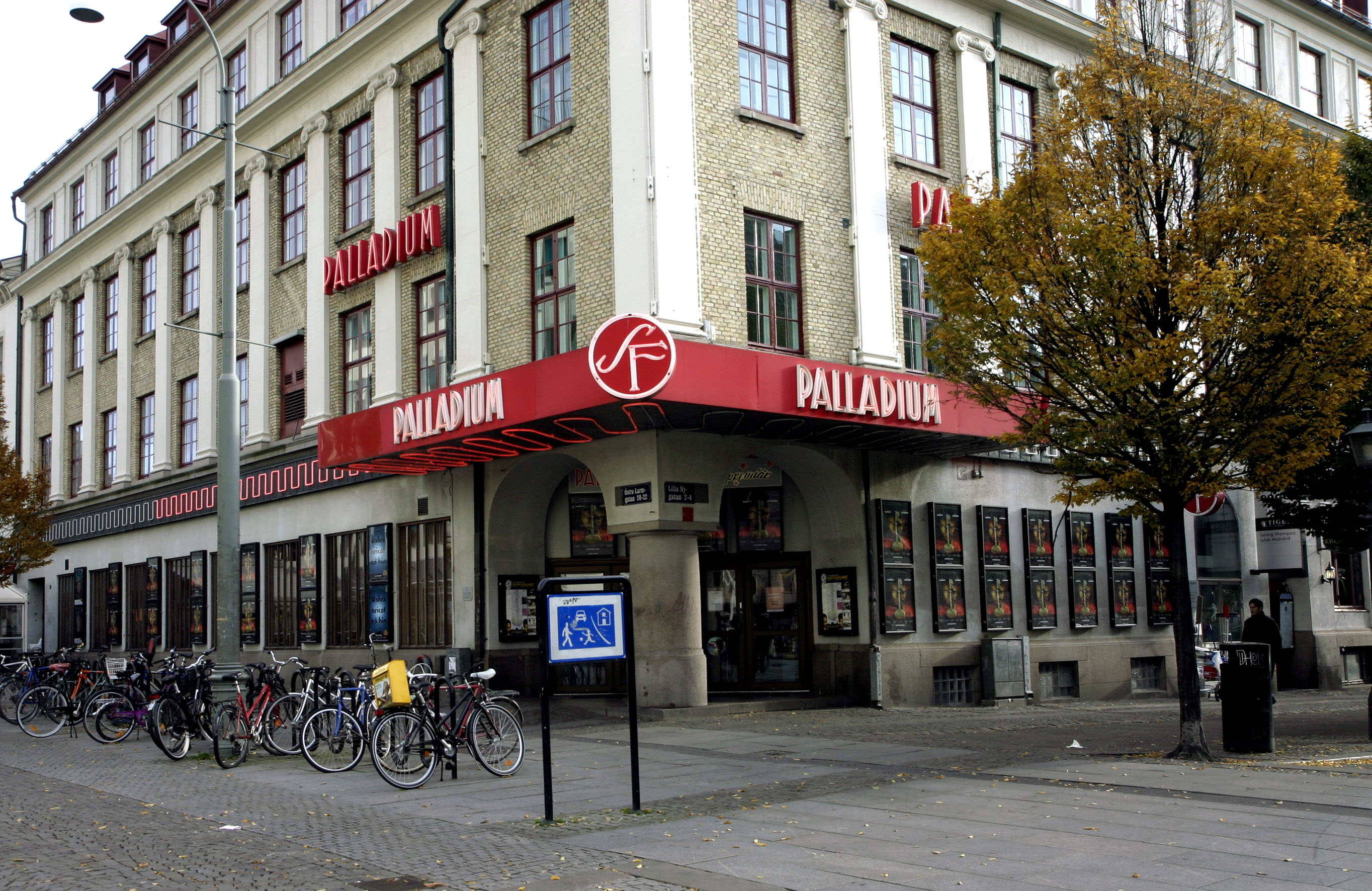 The movie theater "Palladium" in Gothenburg, Sweden a couple of months before closing down.